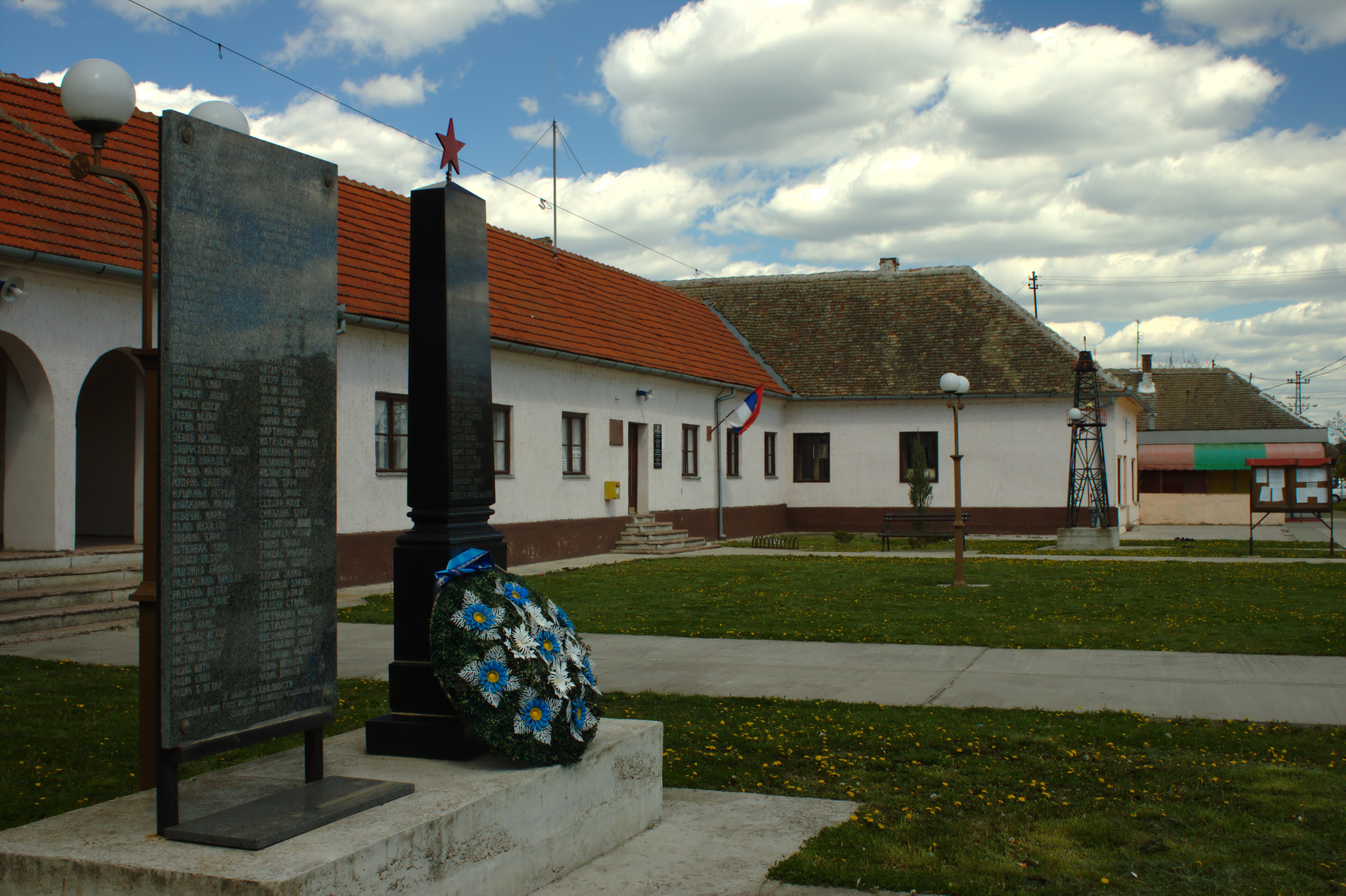 Cultural center and partyzans memorial in the town of Velika Greda in eastern Vojvodina (Banat), Serbia